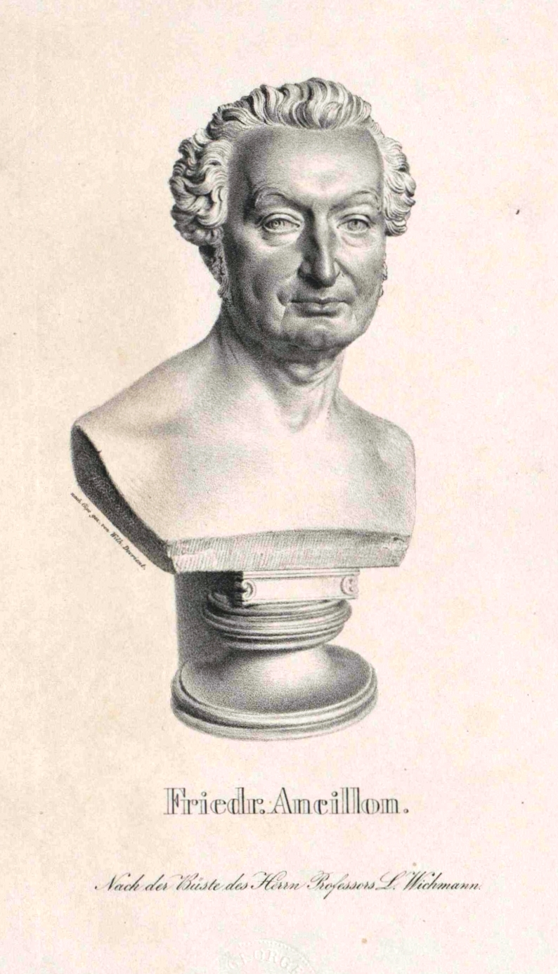 Friedrich Ancillon (1767–1837)